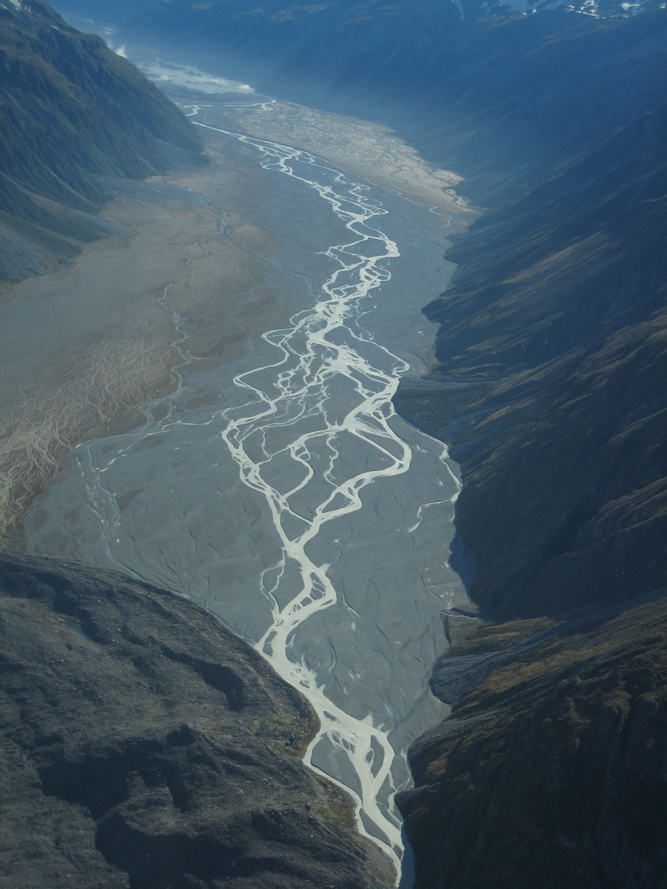 Oblique aerial view of the braided Murchison River, in New Zealand's Aoraki/Mount Cook National Park, from the proglacial lake and terminal moraine of the Murchison Glacier (top left) to the lateral moraine of the Tasman Glacier (lower left). About 10 kilometres (6 mi) of the river's length is visible here. Several scree fans descend from the surrounding mountains onto the Murchison valley floor.